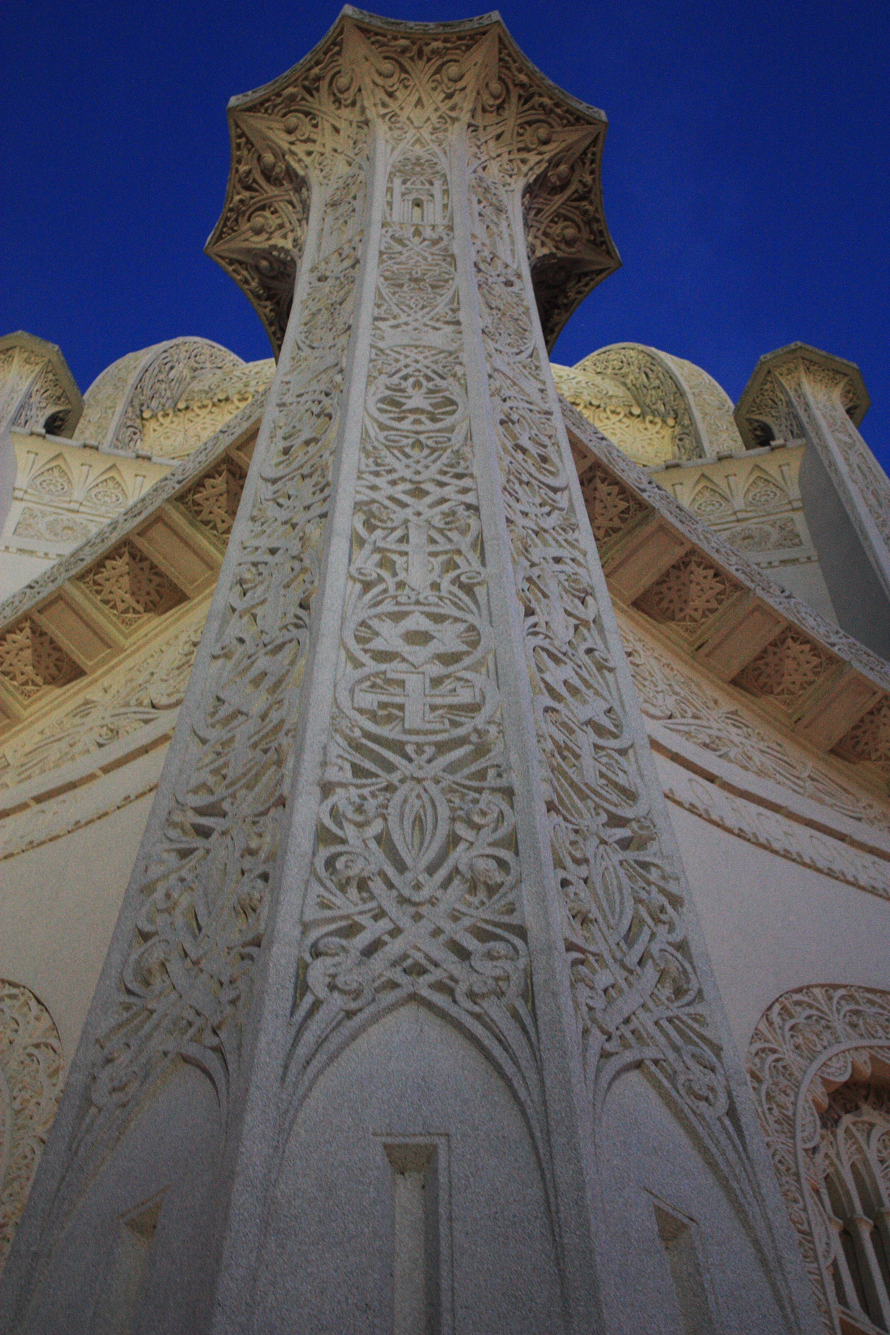 One of the pillars of the temple. If you look closely, you can see the cross, the jewish star, and the swastika all together.